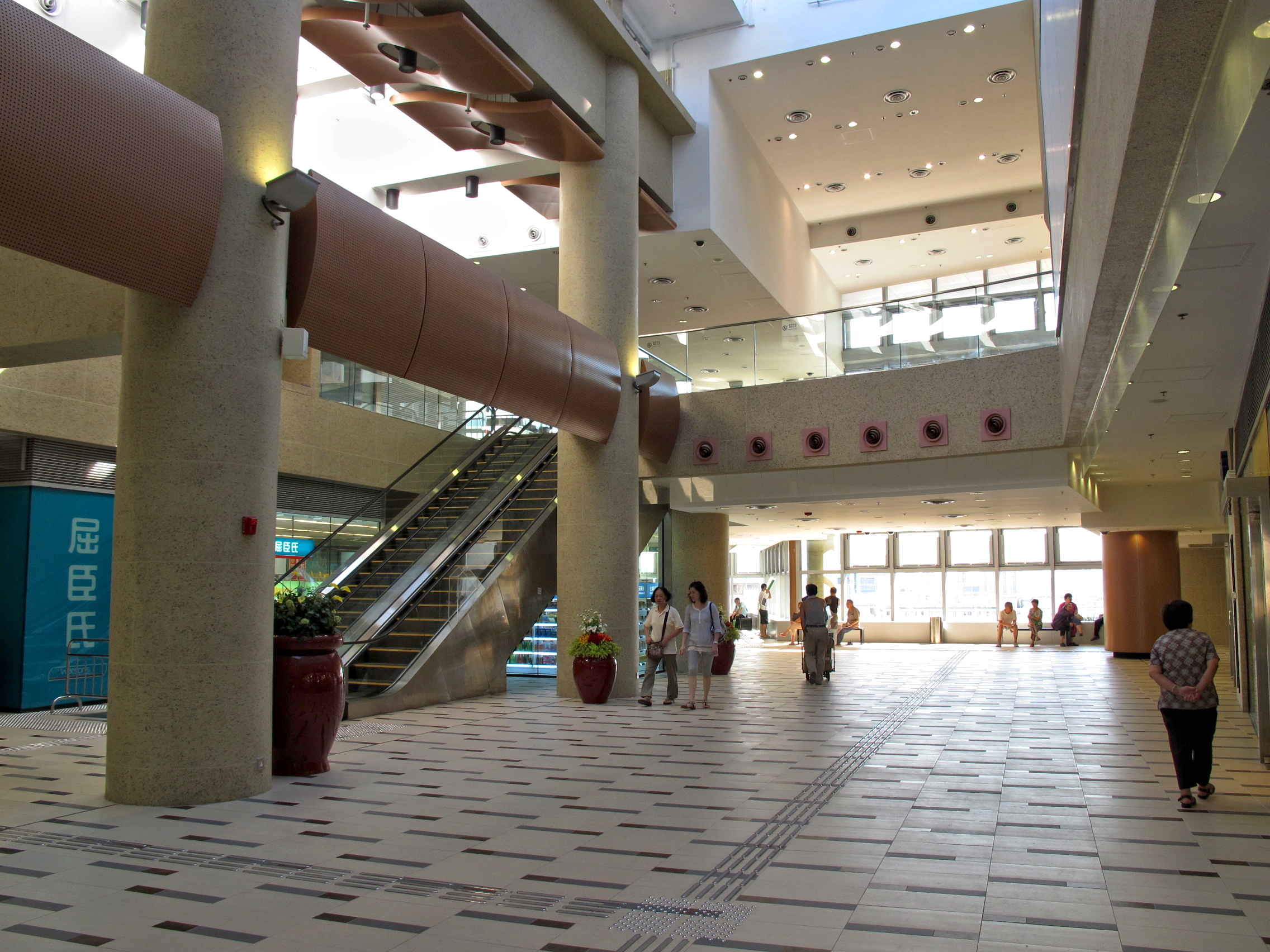 Choi Tak Shopping Arcade 彩德商場